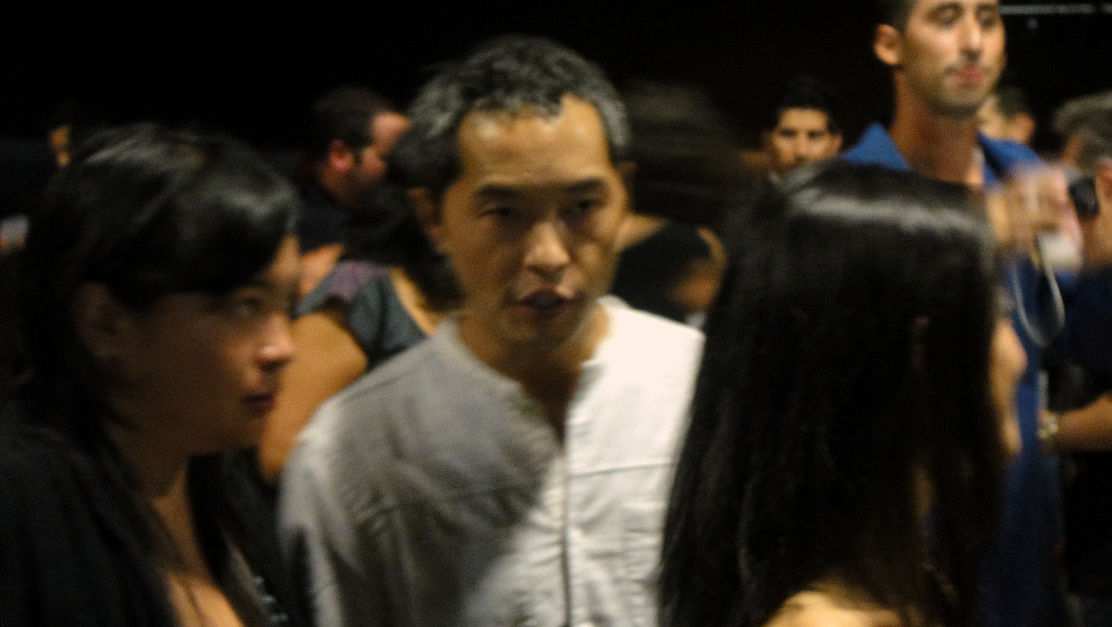 The actor Ken Leung